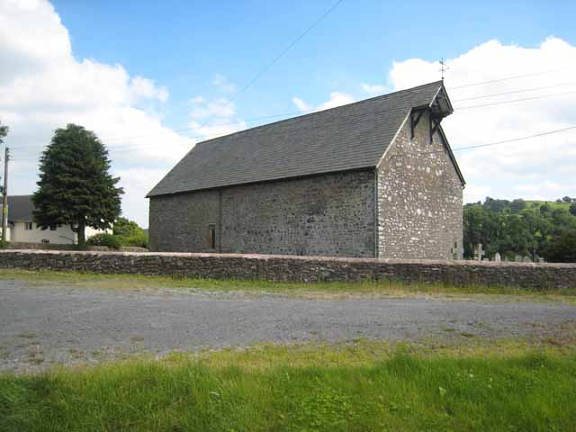 Llanllugan Church Just across the way from Carreg Hywel Harries - pulpit stone and holy well.